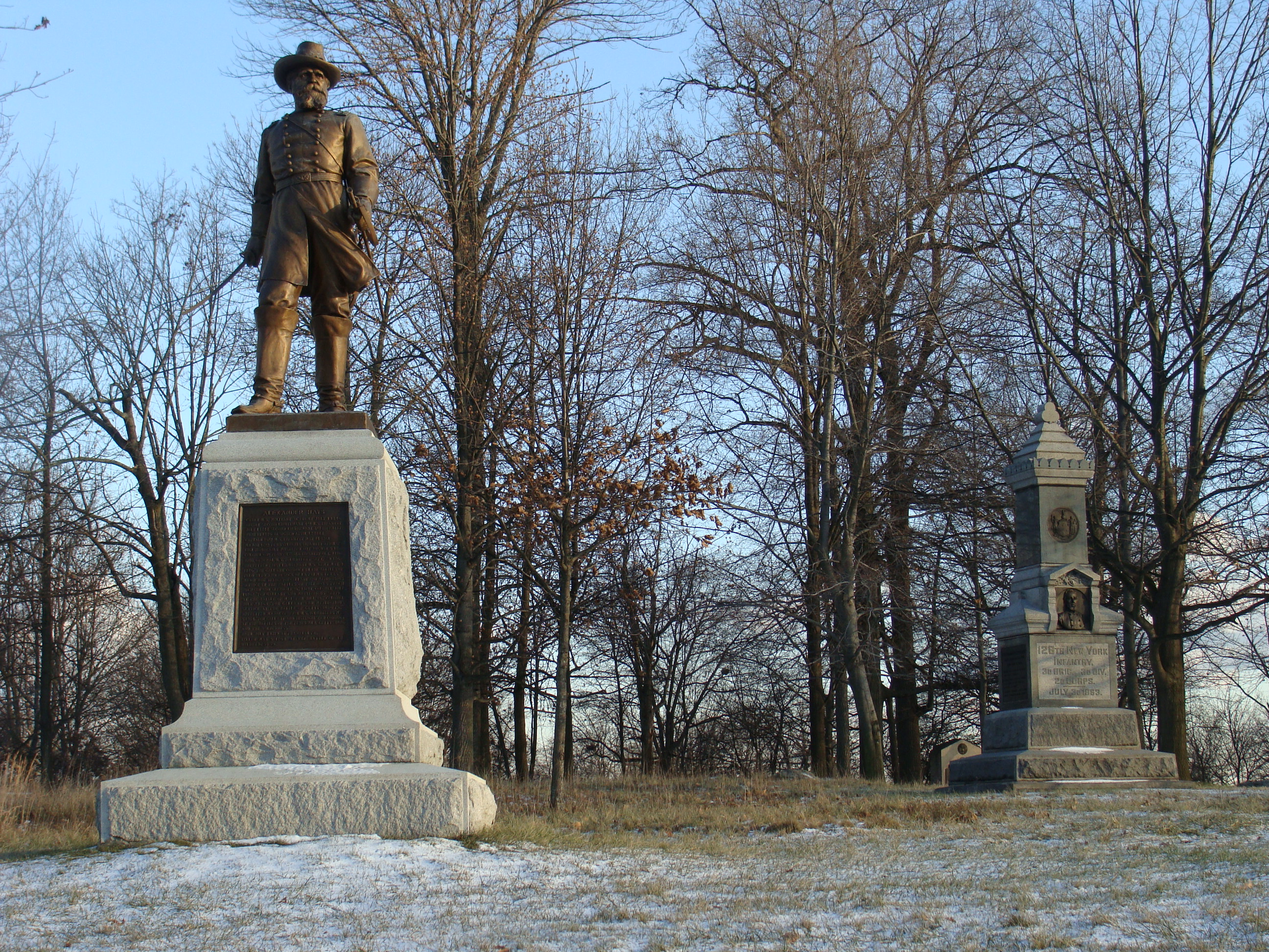 Statue of Alexander Hays at the Gettysburg National Military Park in Gettysburg, PA. 126th New York Infantry Monument on right.